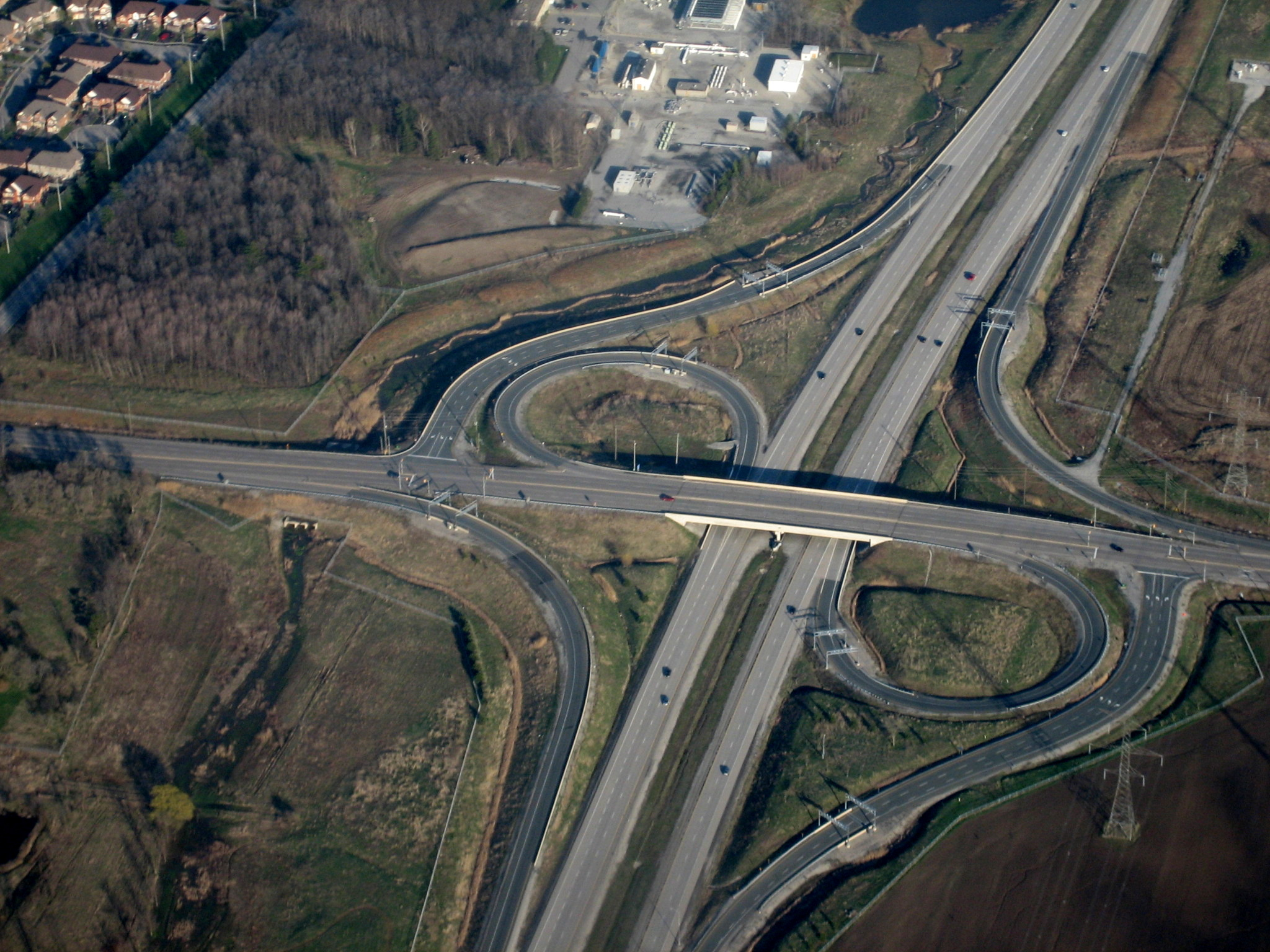 Highway 407 (Ontario) meeting Derry Road, looking eastsoutheast. In 2010 the municipal boundary between Mississauga (left) and Milton, Ontario, Canada, was moved from the Ninth Line (road at upper left) to follow the centreline of highway 407.